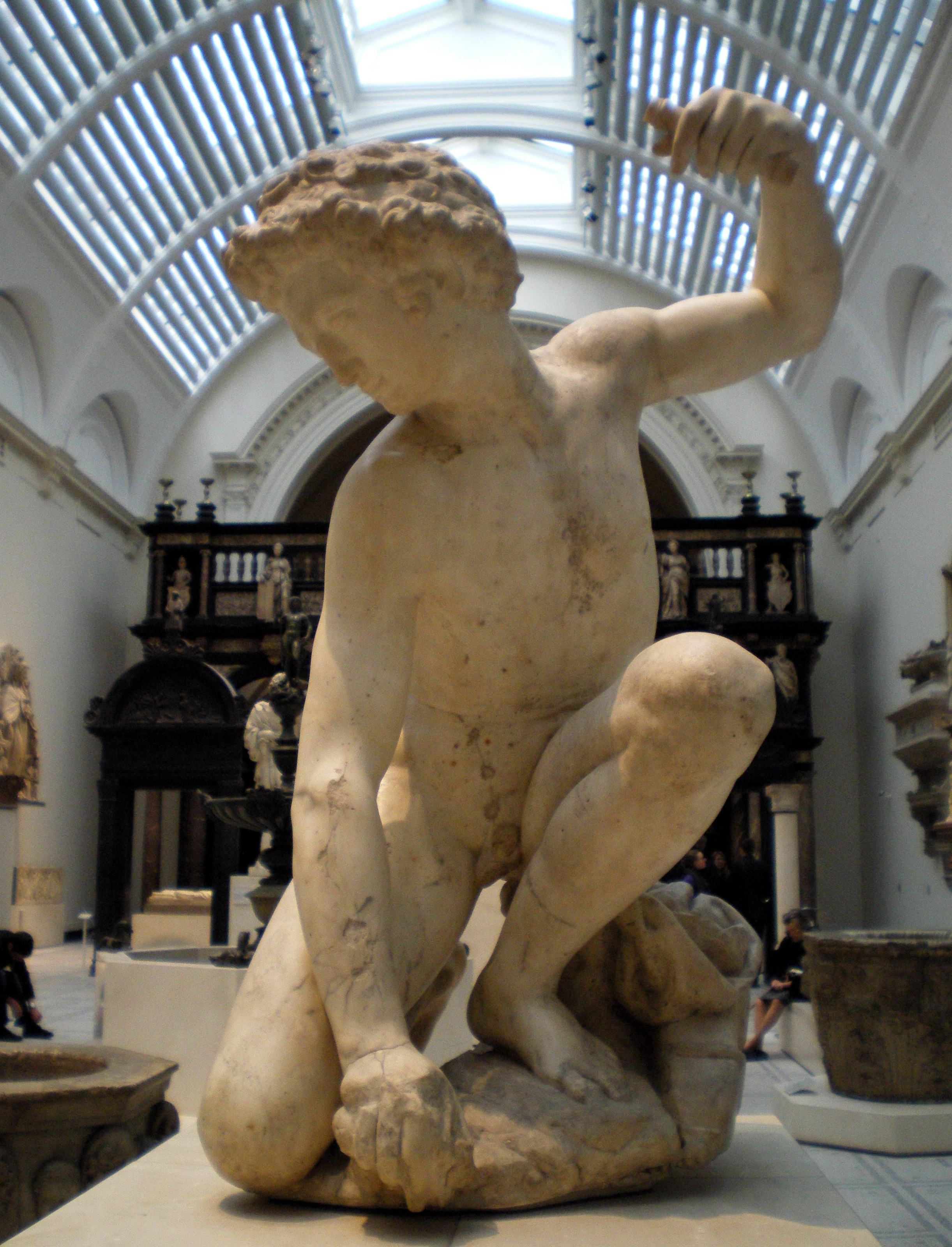 Narcissus About 1560 Possibly by Valerio Cioli (about 1529-99) Italy, probably Florence Carved marble with 19th century plaster repairs Narcissus is shown as a youth returning from a hunt. He stops to look into a pool of water and is mesmerised by his reflection, which he has never seen before. He falls in love with the beautiful image he sees and then cannot stop looking. This may have originally been the centrepiece for a fountain, and therefore shown the figure gazing into an actual pool of water. When discovered in Florence this statue was identified as a statue of Cupid carved by Michelangelo which was thought to be lost. For many years after its acquisition by the V&A it was one of the most celebrated works in the Museum because of this attribution. It has since been identified as an ancient Roman copy of a classical model. It was extensively recut in the sixteenth century, with the head being added at this time, and is thought to be the work of the Florentine sculptor Valerio Cioli (ca. 1529 - 1599), who was a restorer of classical sculptures. The raised left arm dates from the nineteenth century. Collection ID: 7560-1861 This photo was taken as part of Britain Loves Wikipedia in February 2010 by art_traveller.